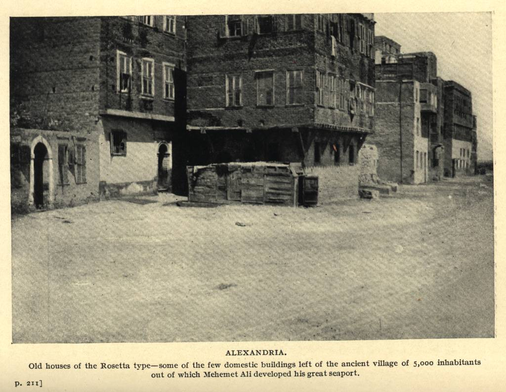 A line of houses receding in the distance